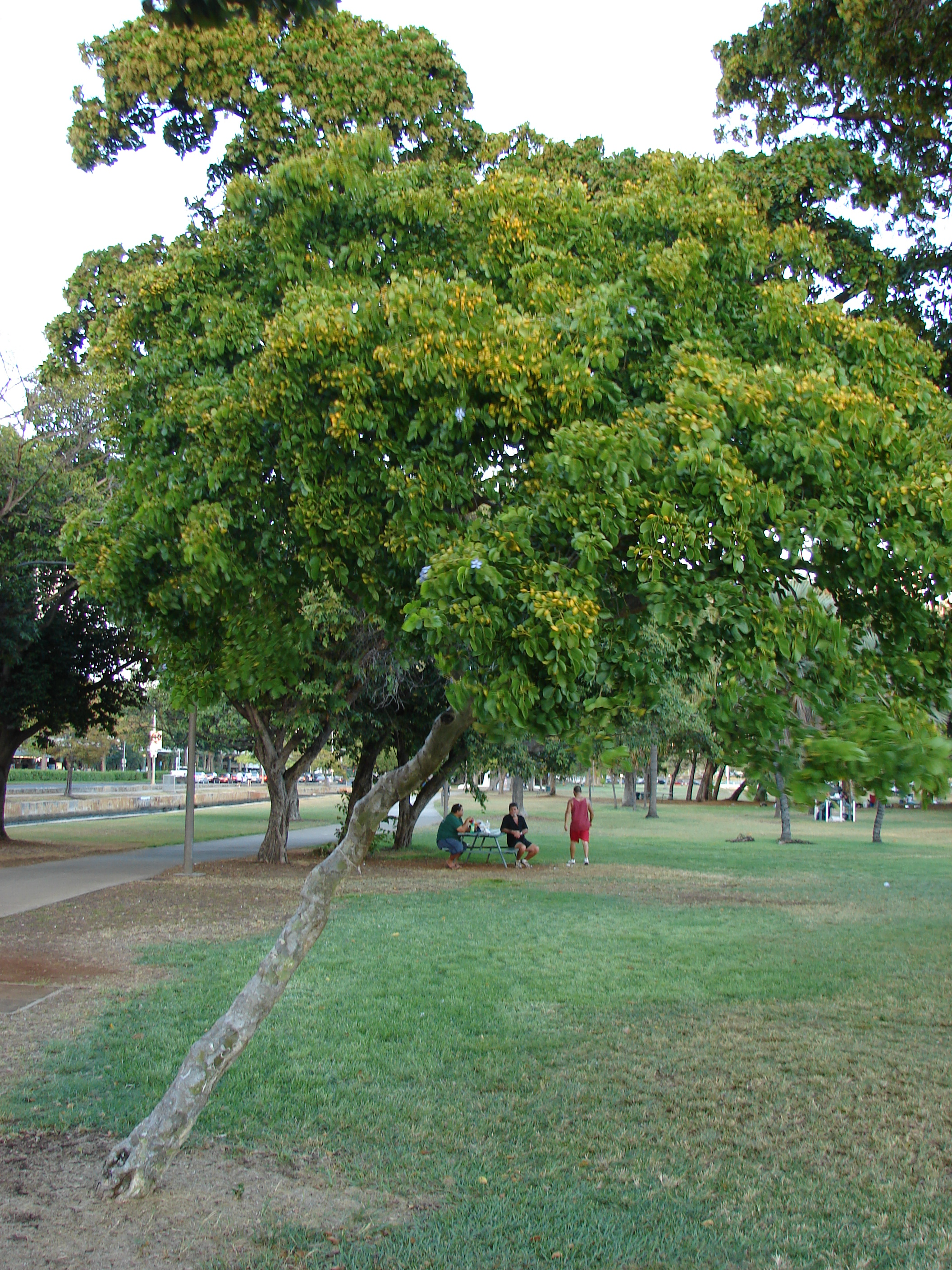 Guaiacum officinale (habit). Location: Oahu, Ala Moana Beach Park